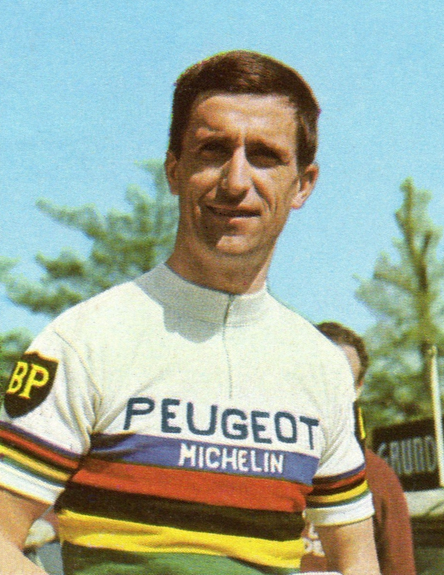 FIGURINA PANINI CAMPIONI DELLO SPORT 1966/67 N 268 SIMPSON